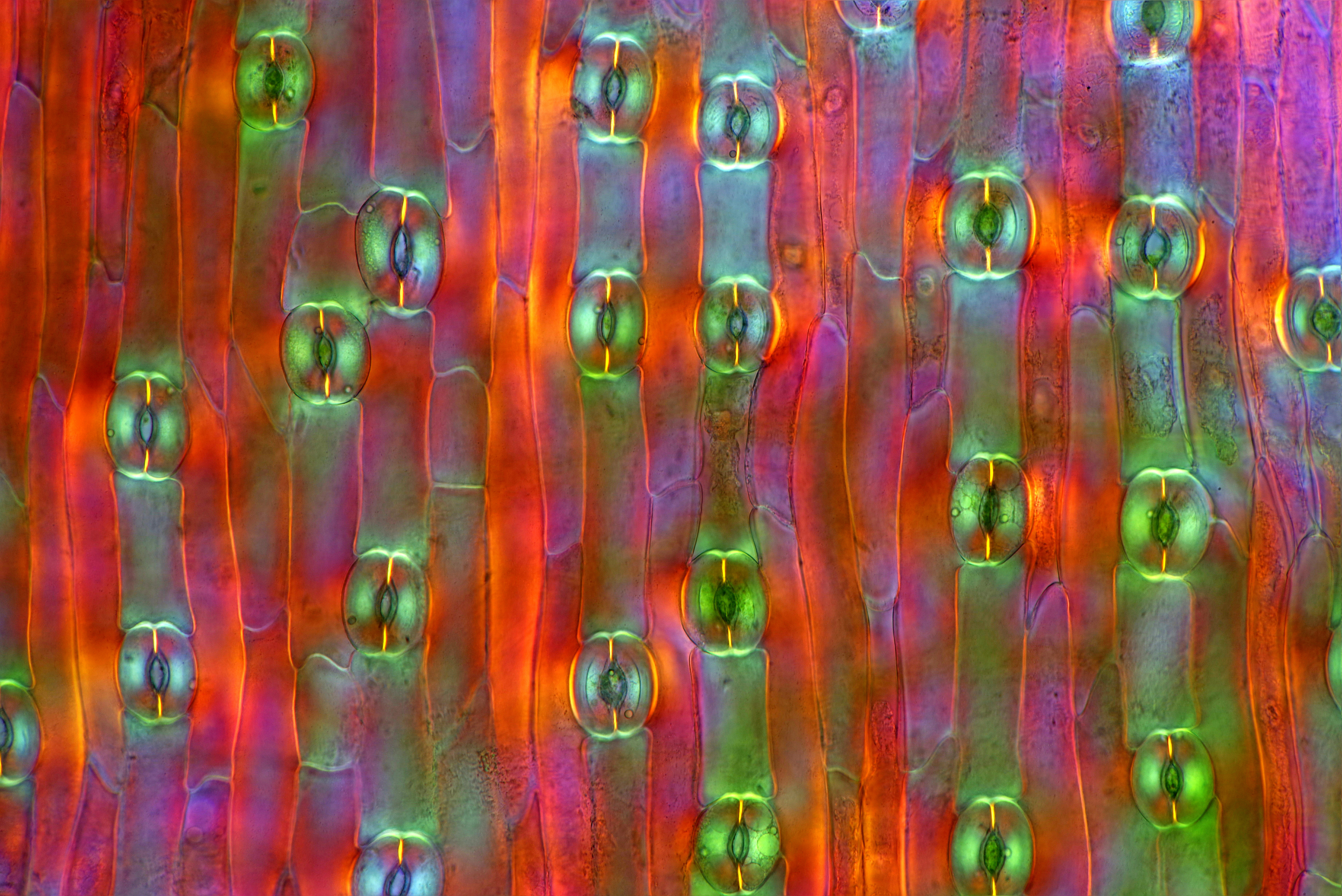 The image presents stomata in tulip leaf epidermis. Magnification is 100X. Technique of the illumination: polarized light